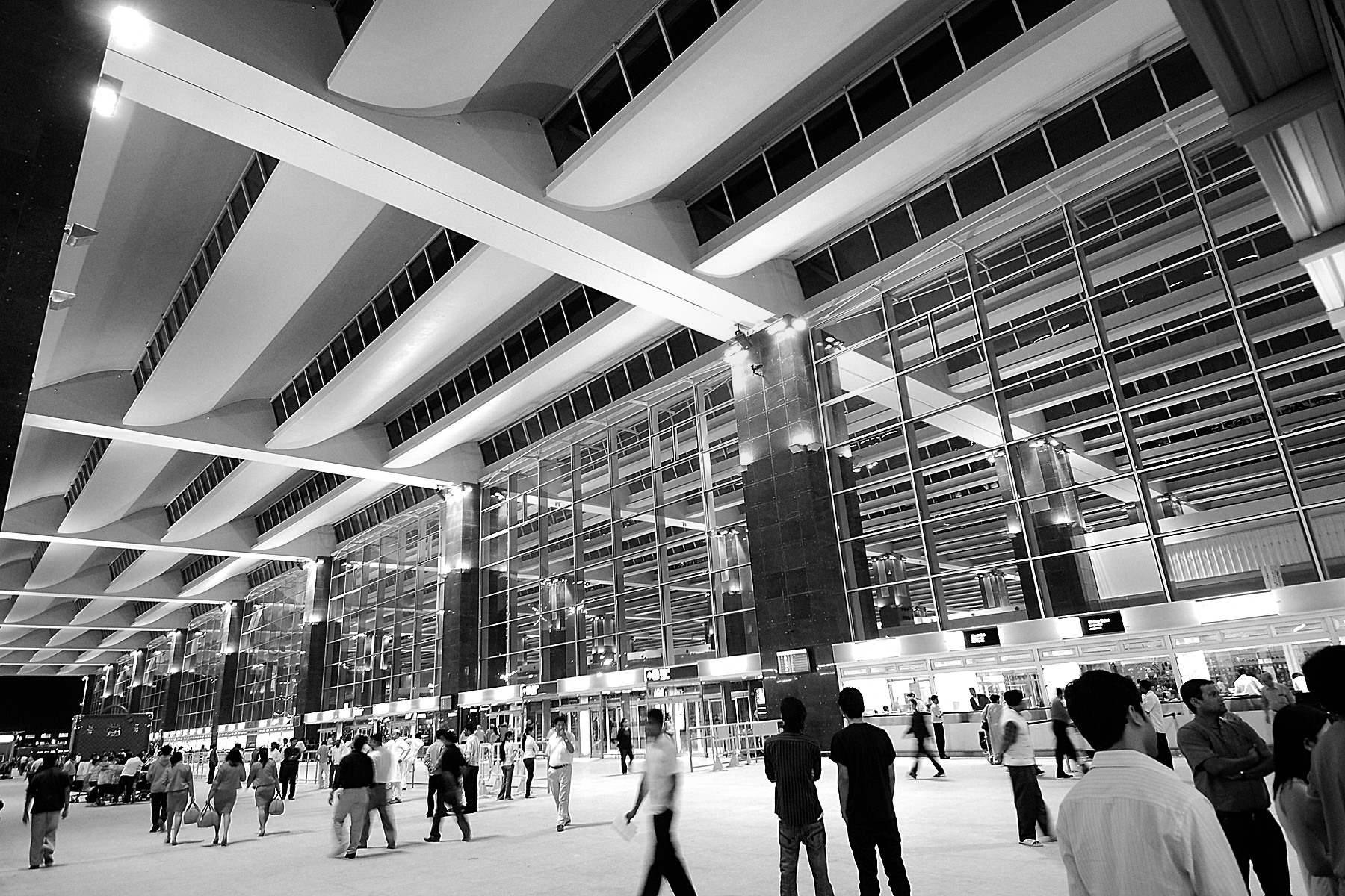 Best viewed large. The main terminal of the brand new Bangalore International Airport. I was one of the first few people at the airport. My mother arrived on the third flight into this new airport.